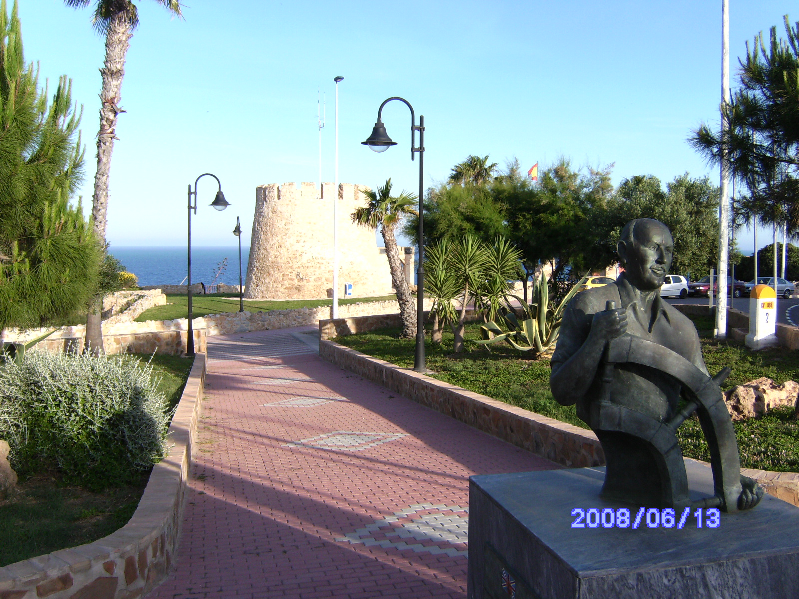 Torre del Moro (Torrevieja)